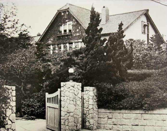 Residence of Hirao Hachisaburo